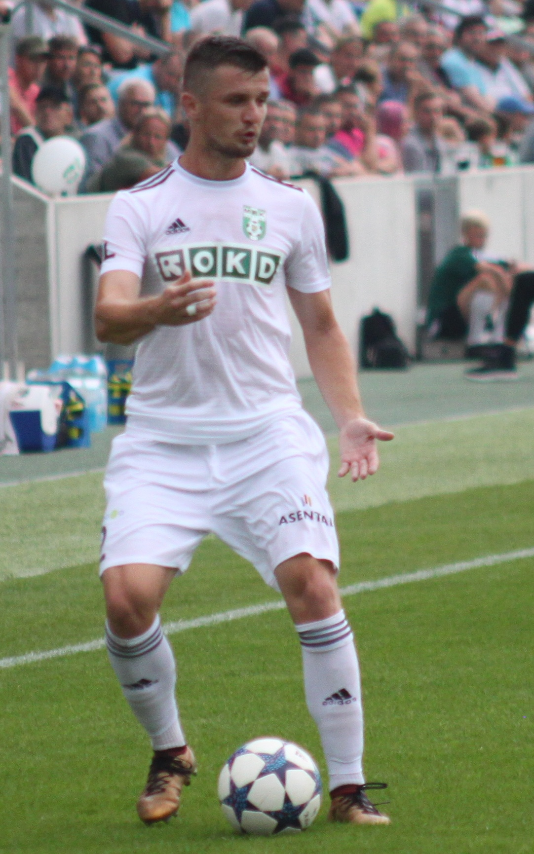 Aleš Mertelj during association football match MFK Karviná-1. FC Slovácko (2:1) on 2nd Semtemper 2018